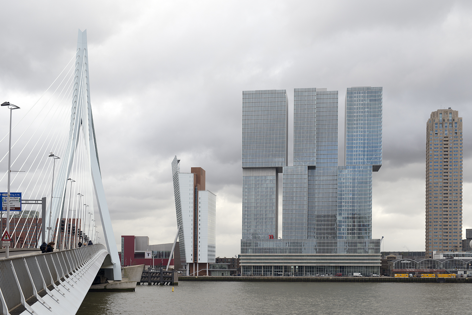 Rotterdam, Vertical Town (Rem Koolhaas)